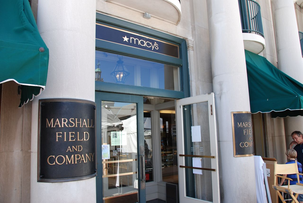 Former Marshall Field's Department Store (now Macy's) in Lake Forest, Illinois